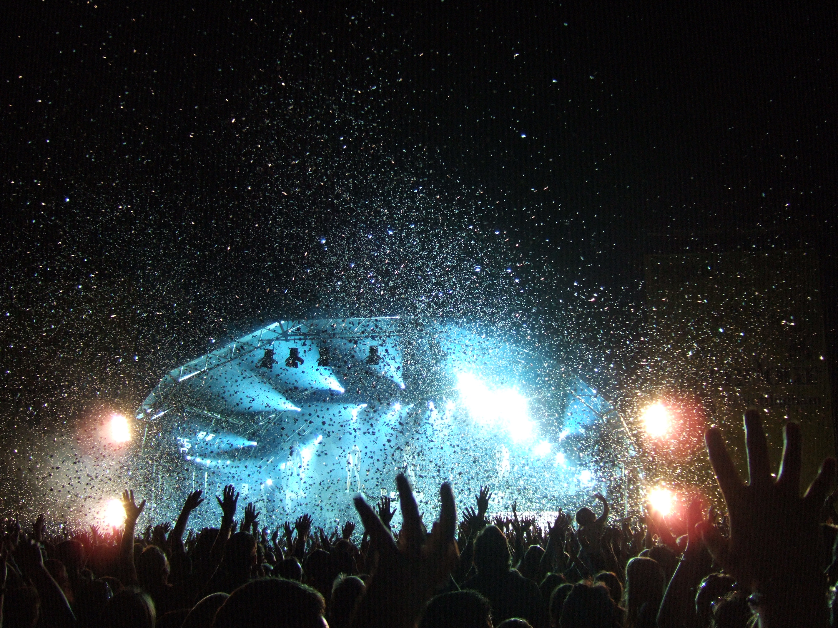 The Pet Shop Boys - Splendour, Nottingham - July 2010